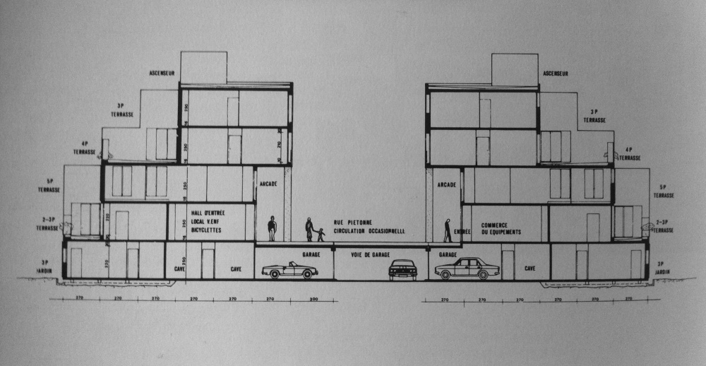 Arcades classiques, terrasses moderne, parking sous dalle